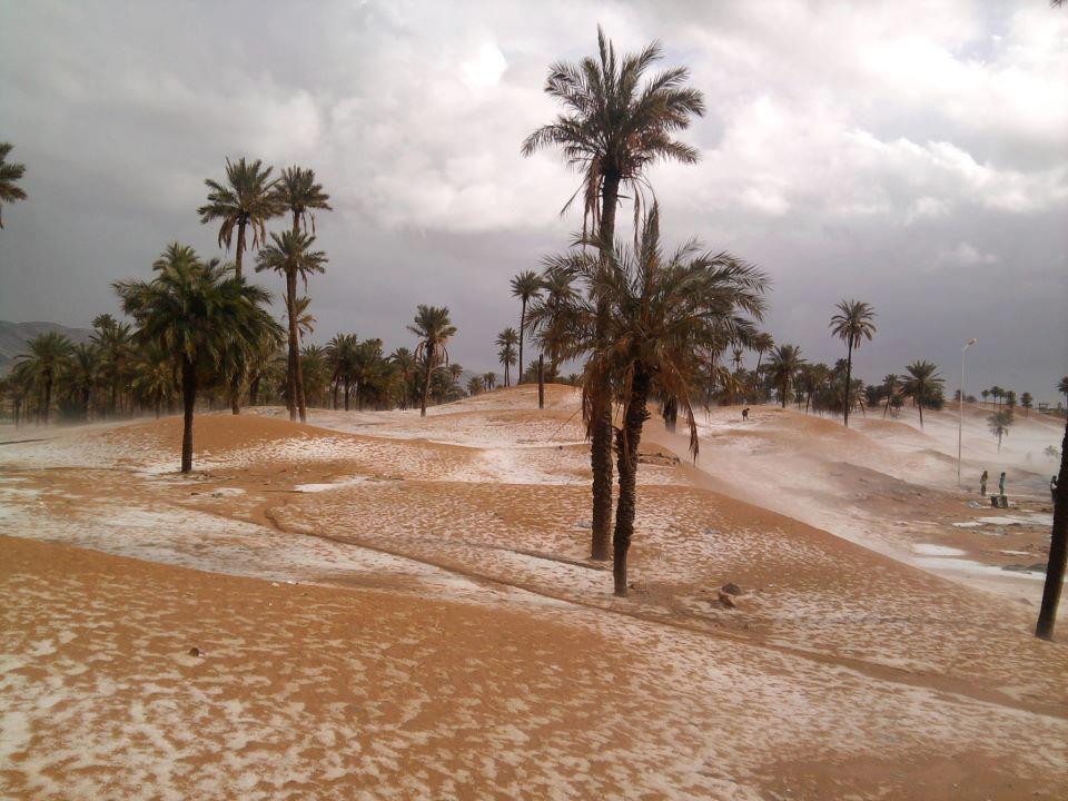 neige de bechar